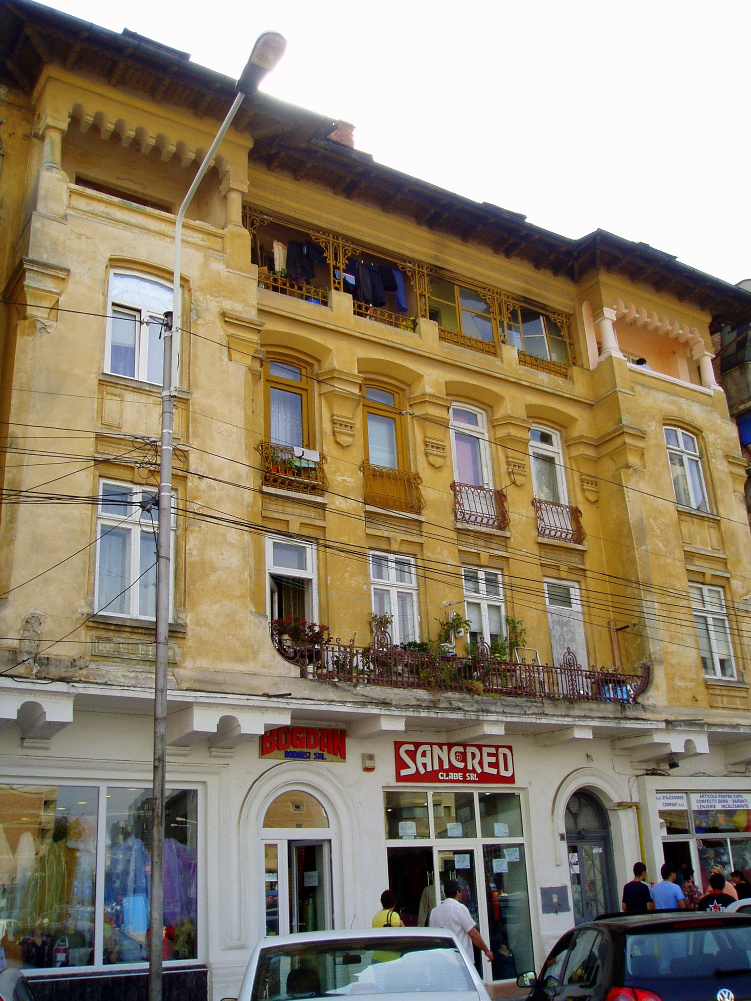 Building of Mr Bodgan, Ploieşti, Roumanie. Architect: Toma T. Socolescu. This building is located at Kogălniceanu street, nr 36, Ploieşti, Judeţul Prahova, Romania. We are the only heirs and descendants of Toma T. Socolescu (died in 1960 in Bucharest) and therefore owner of all his intellectual rights.